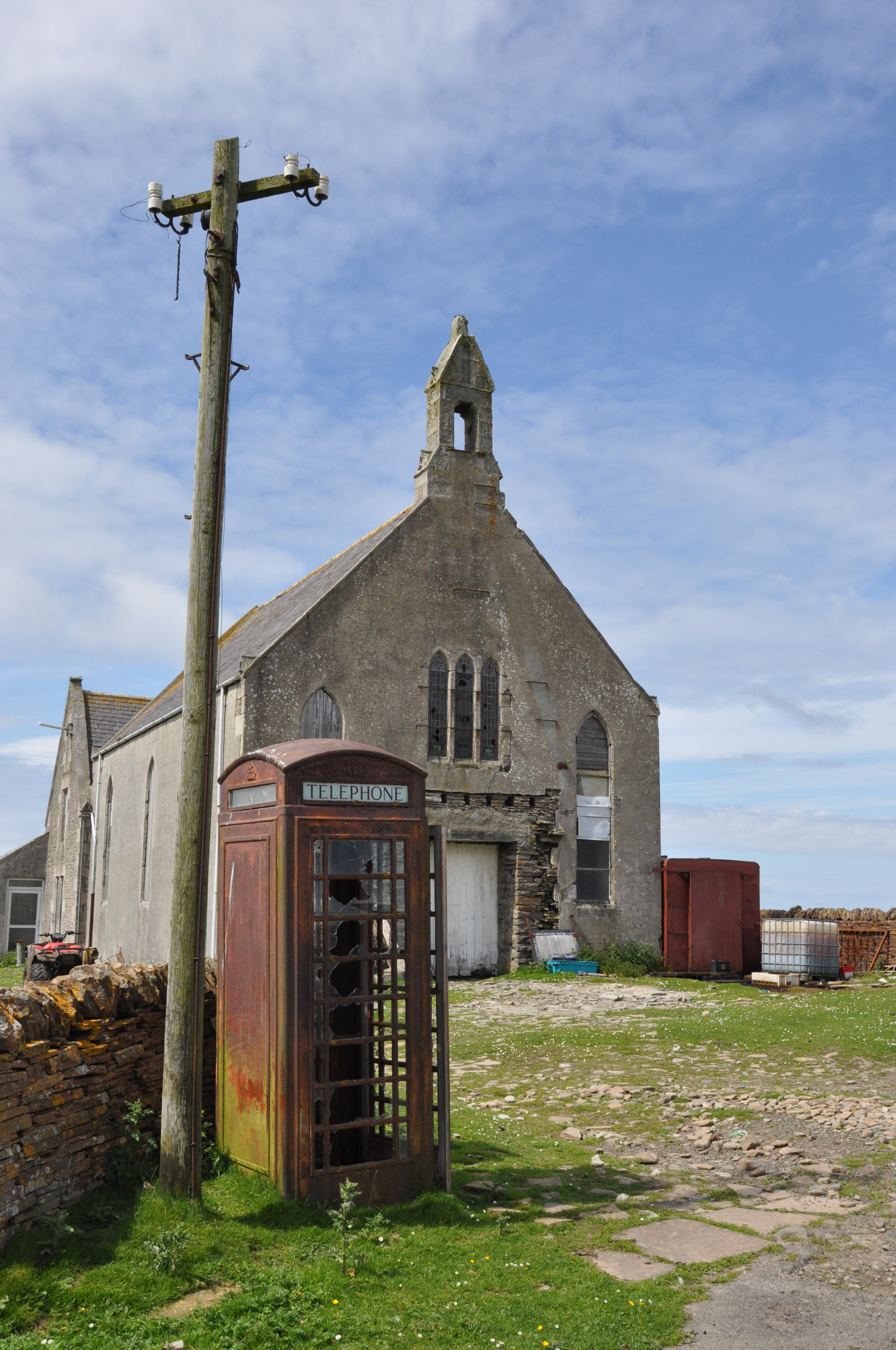 The abandoned church and a red phone box on Stroma